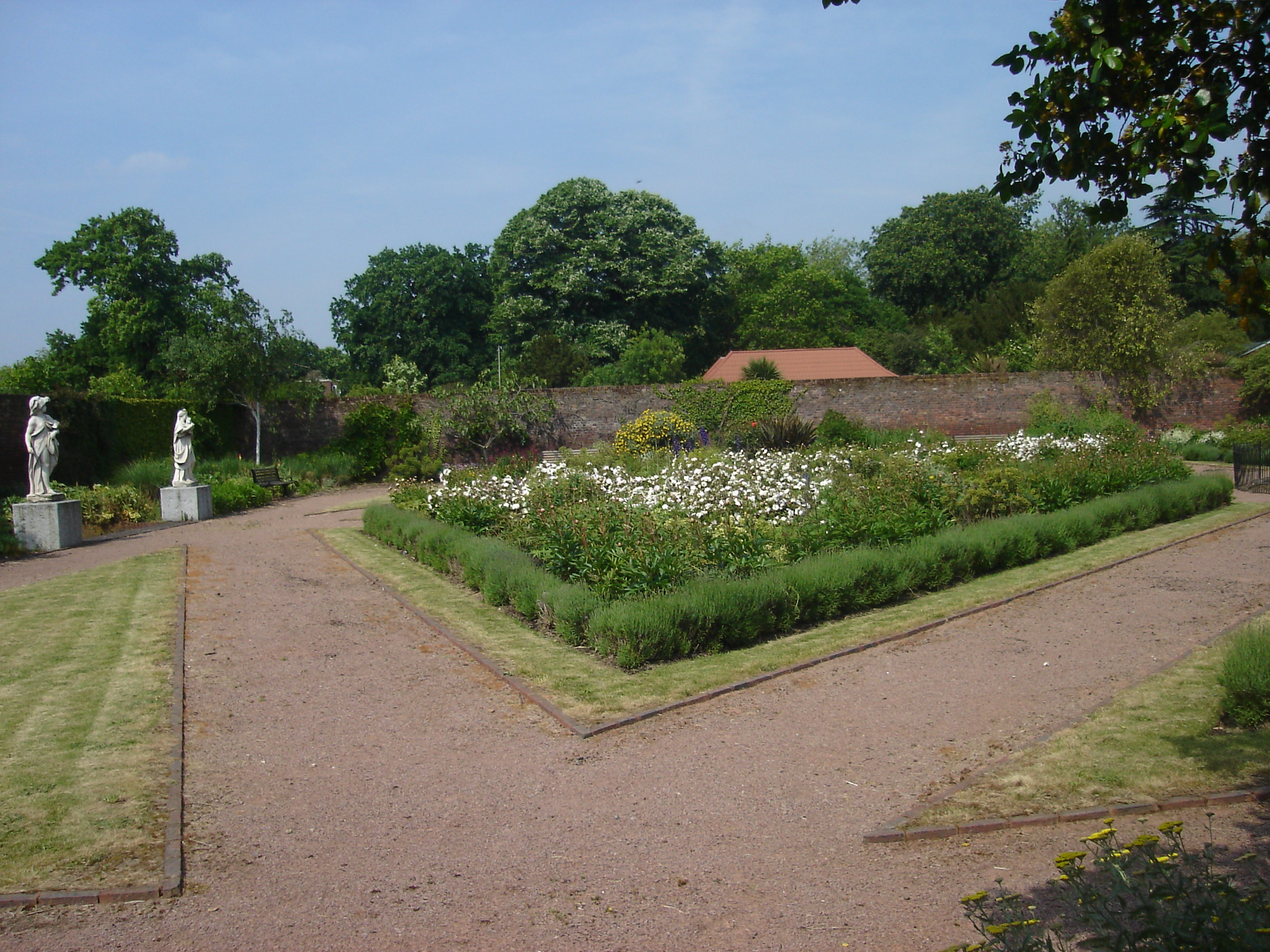 Picture of Pymmes Park. The park is located in Edmonton